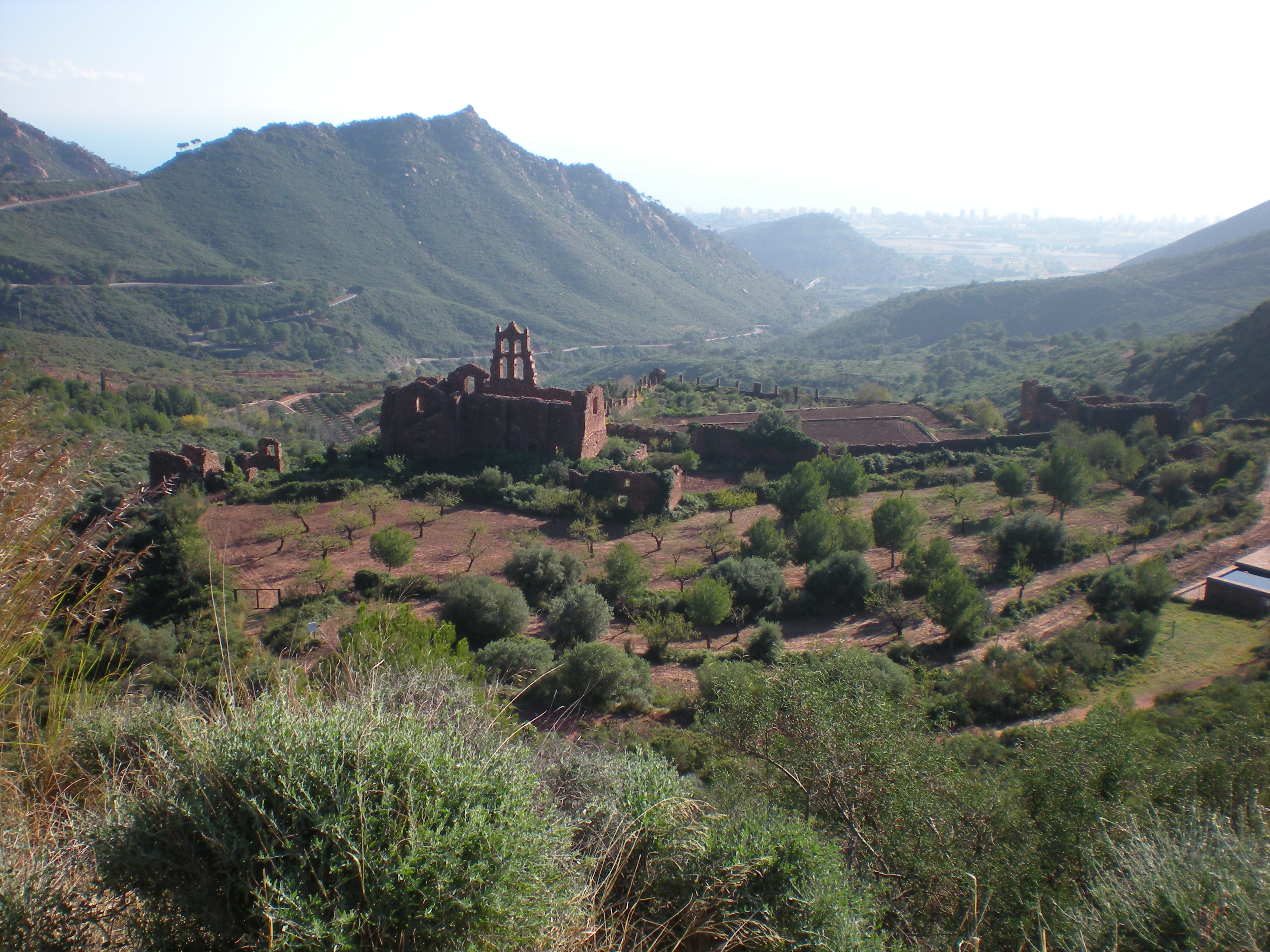 Carmelita del Desierto de las Palmas Monastery ruins, in the Desert de les Palmes mountains of Castellón Province, in Land of Valencia—Valencian Community, eastern Spain.